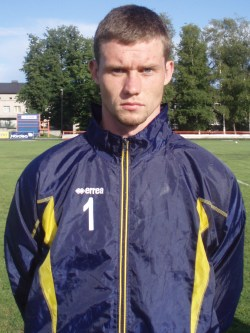 Vitālijs Meļņičenko, Latvian football goalkeeper.